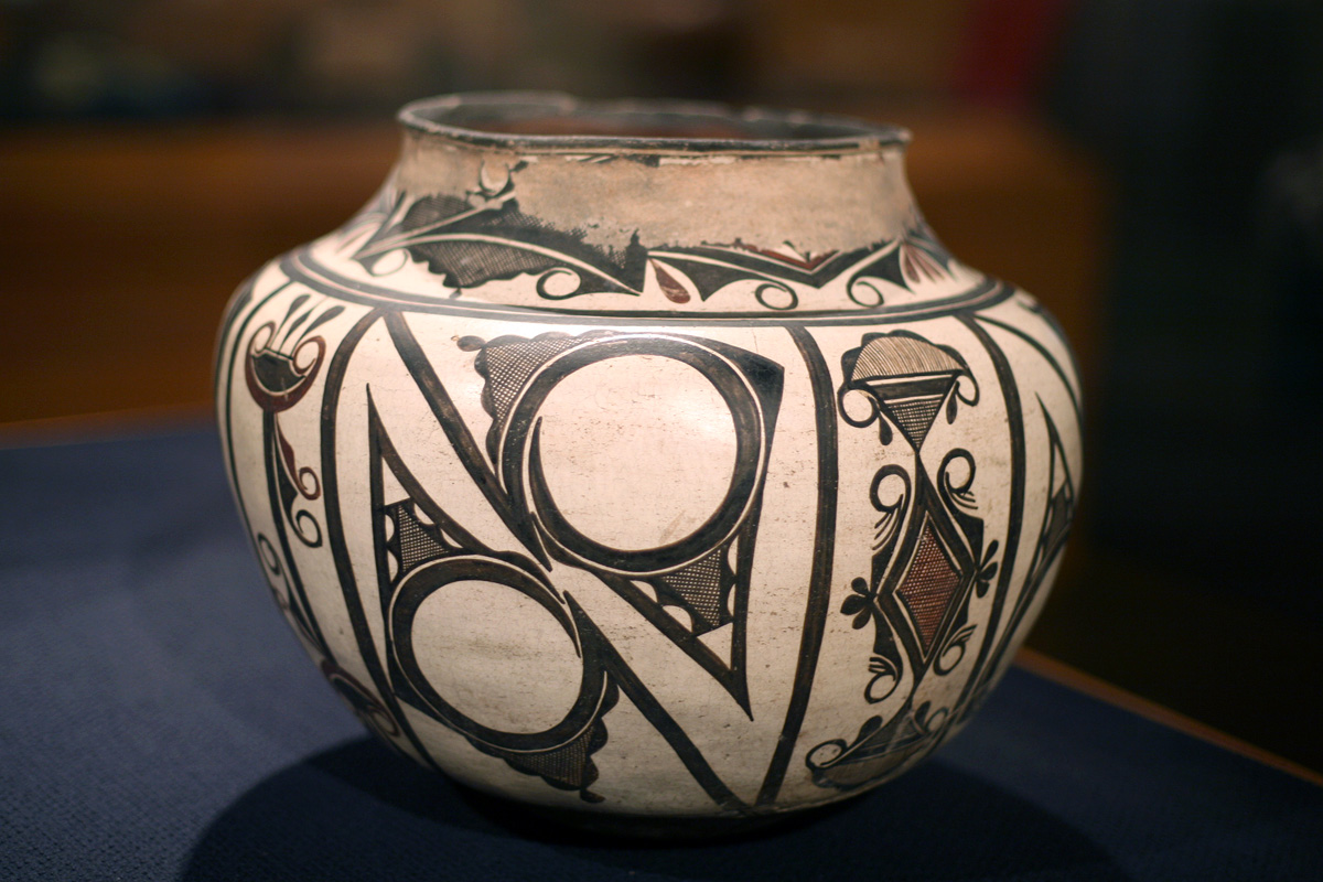 Pueblo, Zuni (Native American). Water Jar, late 19th-early 20th century. Clay, slip, Height: 12 1/2 in. (31.7 cm) Diameter: 8 3/4 in. (22.2 cm). Brooklyn Museum, Brooklyn Museum Collection, X764. Wikipedia Loves Art at the Brooklyn Museum This photo of item # [1] at the Brooklyn Museum was contributed under the team name "shooting_brooklyn" as part of the Wikipedia Loves Art project in February 2009. Brooklyn Museum The original photograph on Flickr was taken by shooting brooklyn—please add a comment to the original Flickr page whenever a use has been made on Wikipedia or another project. Project galleries on Flickr: this institution, this team